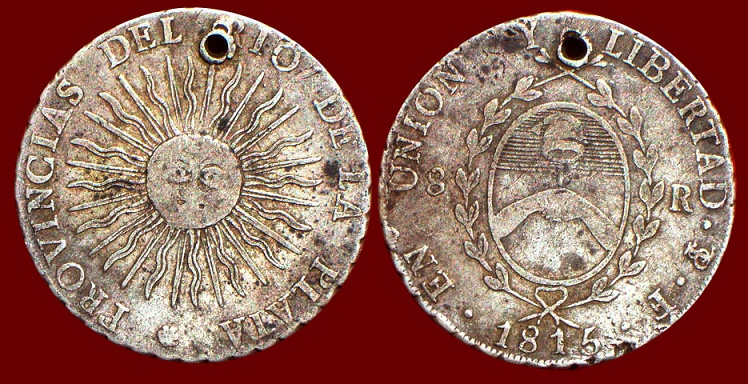 Argentine coins.